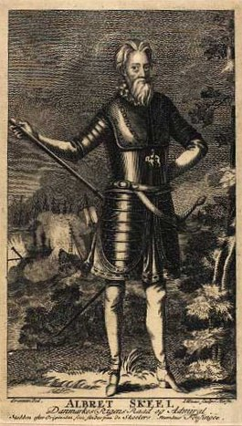 A print showing the Danish Reich Admiral Albret Skeel (born 1572) in the holdings of the Royal Danish Library.